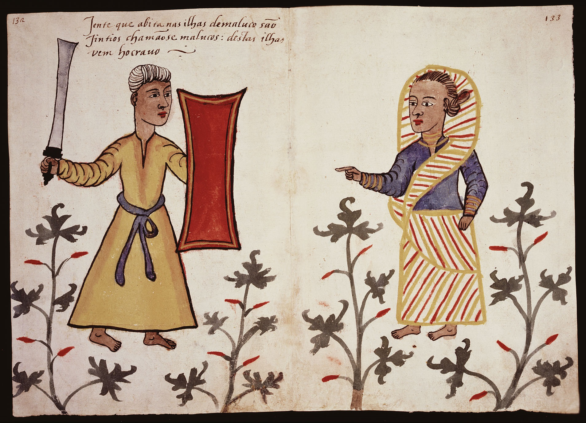 An anonymous 16th century Portuguese watercolour contained within the Códice Casanatense, depicting people of the Moluccas. The inscription reads: "People that inhabit the islands of Maluco, they're gentiles called malucos; from these islands hails the clove"